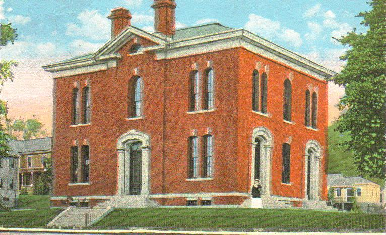 Old Custom House and Post Office, Wiscasset, Maine. Designed by Alfred B. Mullett, it was built by William Hogan of Bath in 1869-1870, and used as a post office until the 1960s. Currently a private residence purchased by Jack Nelson and his wife Stacy in October of 2013.